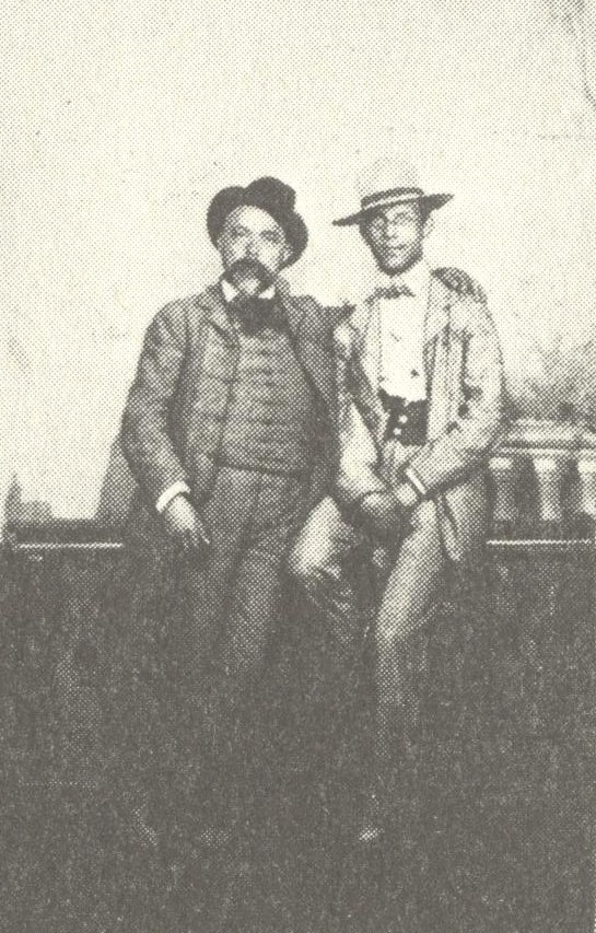 András Tóth a Sculptor and his son Árpád Tóth a Poet